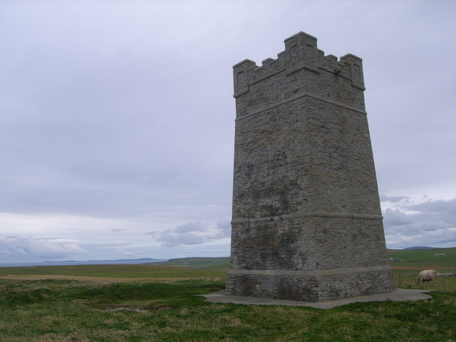 Kitchener Memorial This memorial was erected by the people or Orkney in memory of Field Marshall Kitchener who died on H.M.S. Hampshire along with almost all of its crew on 15th June, 1916.